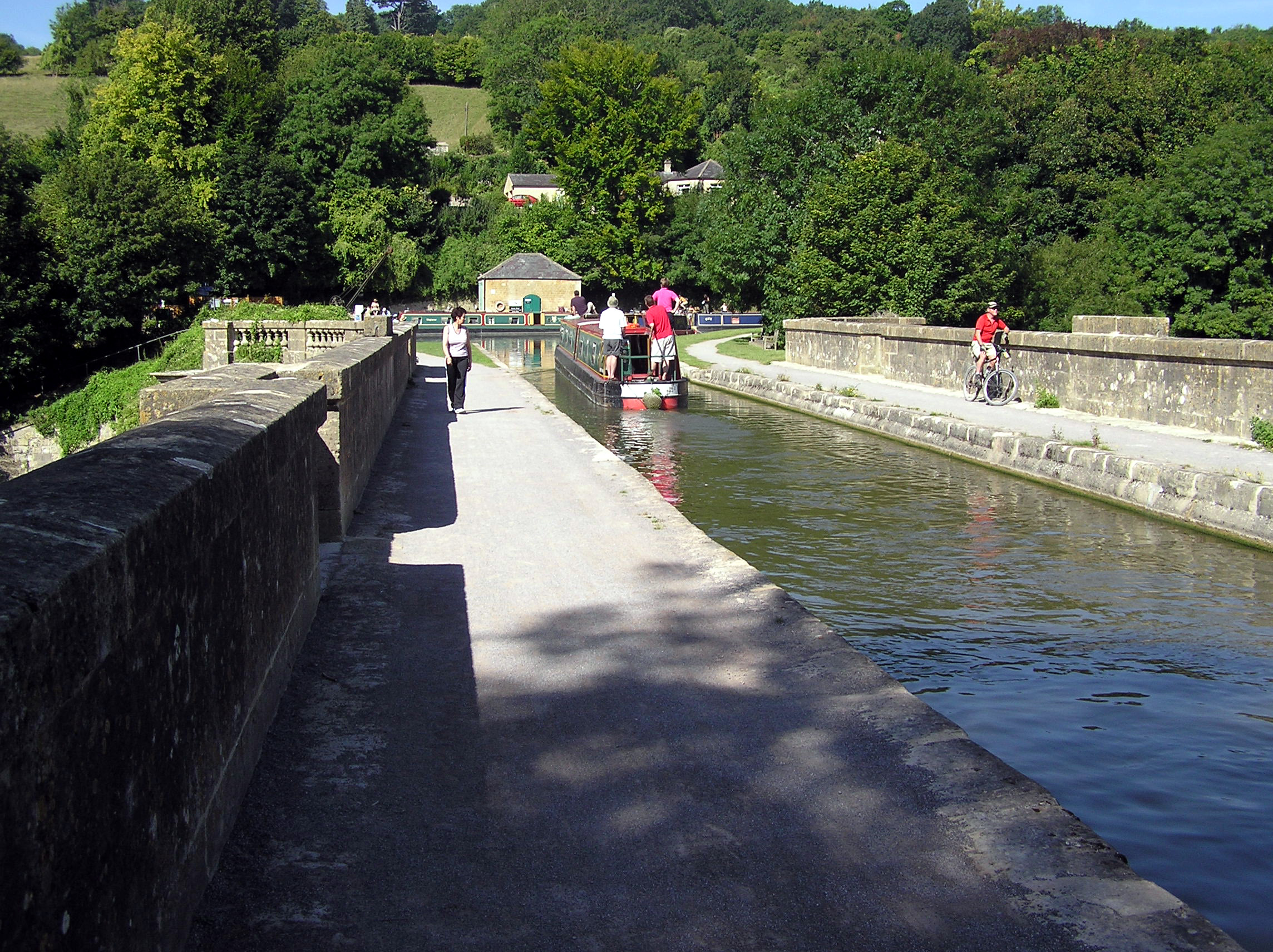 The Dundas Aqueduct on the Kennet and Avon Canal, Limpley Stoke, near Bath, England. The canal boat in the picture can turn left to moorings on the Somerset Coal Canal or right to traverse the last few miles of the Kennet and Avon Canal into the city of Bath (where the canal joins the River Avon). Photographed by Adrian Pingstone on 30th August 2005 and placed in the public domain.